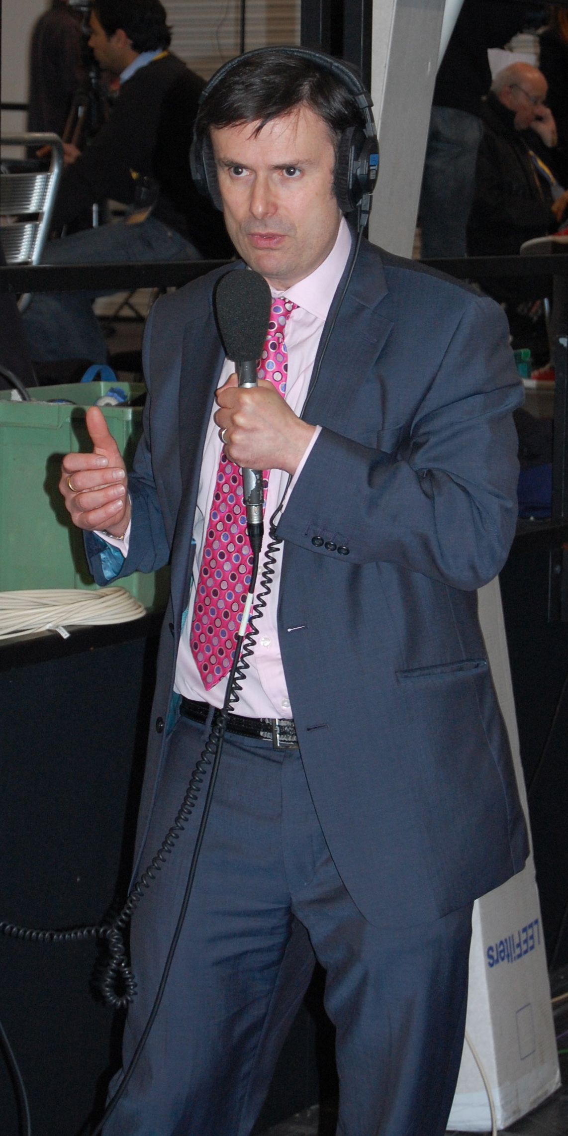 Ropert Peston reporting for the BBC.